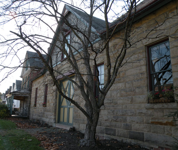 Picture of the Lehner Grain-and-Cider Mill and House at 548 and 560 Penn Street in Verona, Pennsylvania, on November 7, 2009. The mill and house were built around 1895, and they are listed on the National Register of Historic Places.